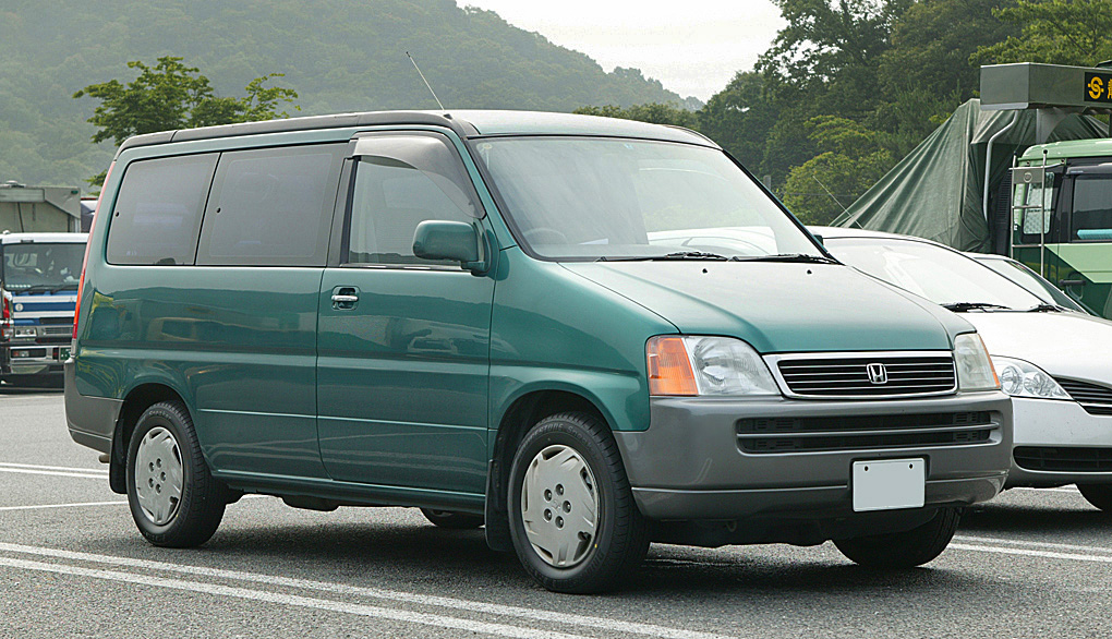 First generation Honda Step WGN type G